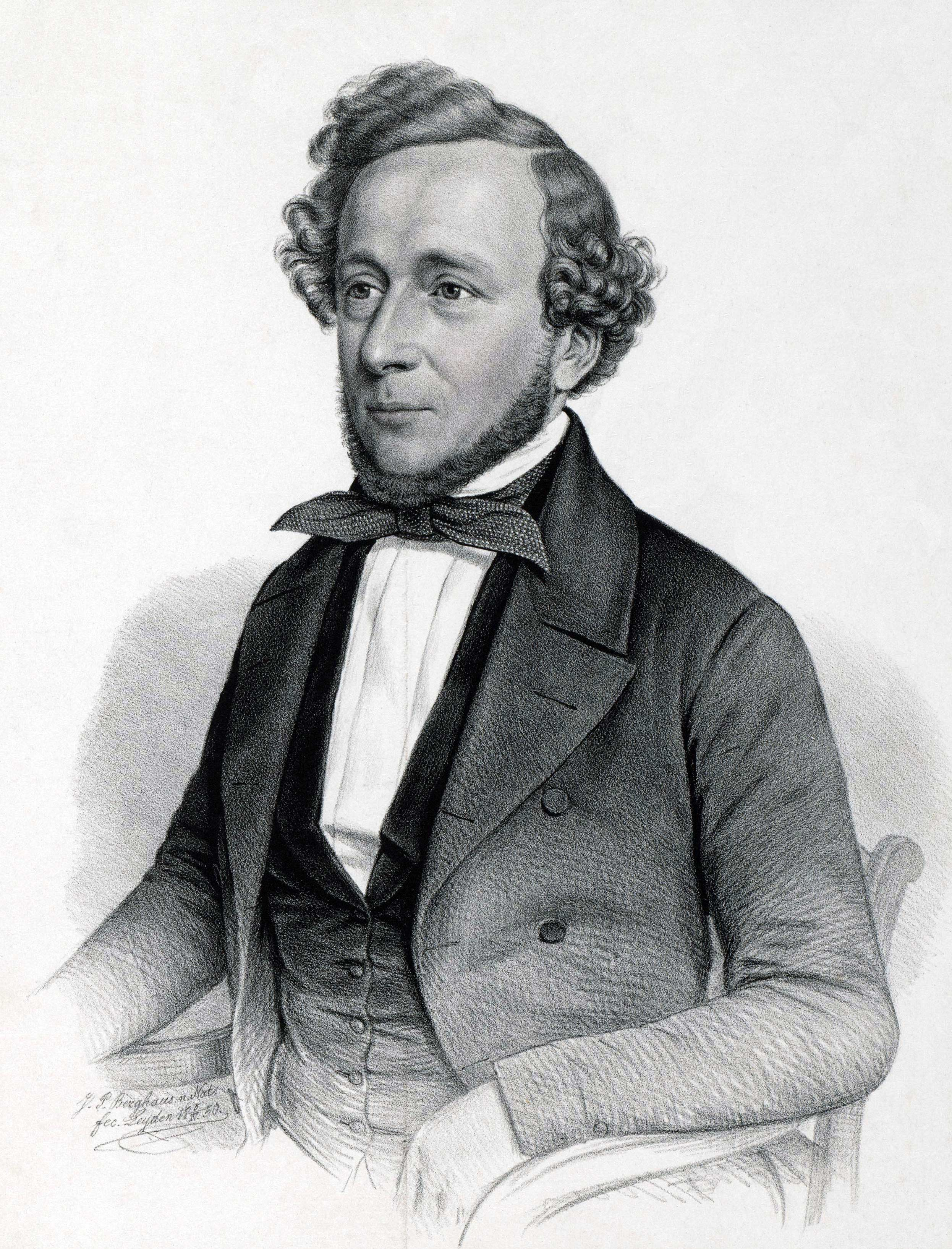 Frederik Willem Krieger (1805-1881), professor Leiden University (surgery)